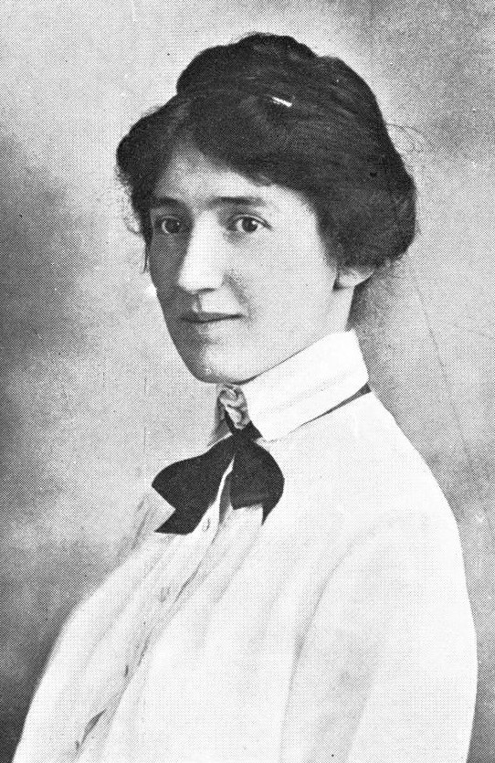 Photographic portrait of Mary Josephine Benson